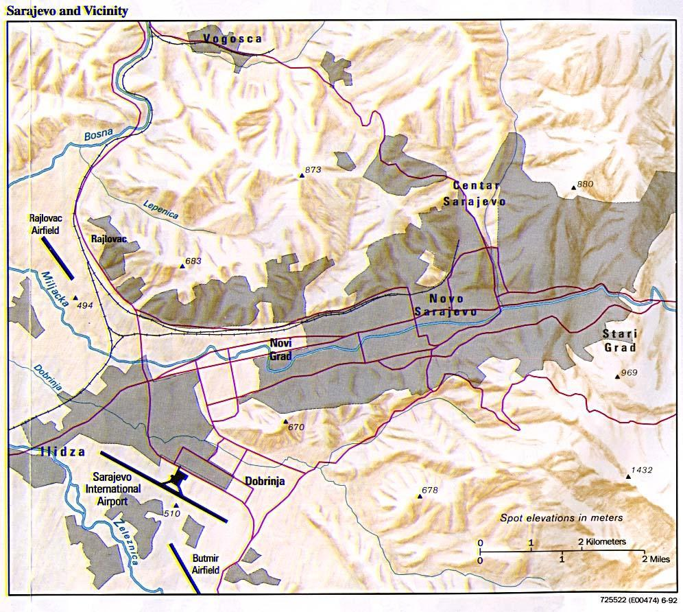 This image has been released into the public domain. Courtesy of the University of Texas Libraries, The University of Texas at Austin Originally from "The Former Yugoslavia: A Map Folio CIA 1992" Source